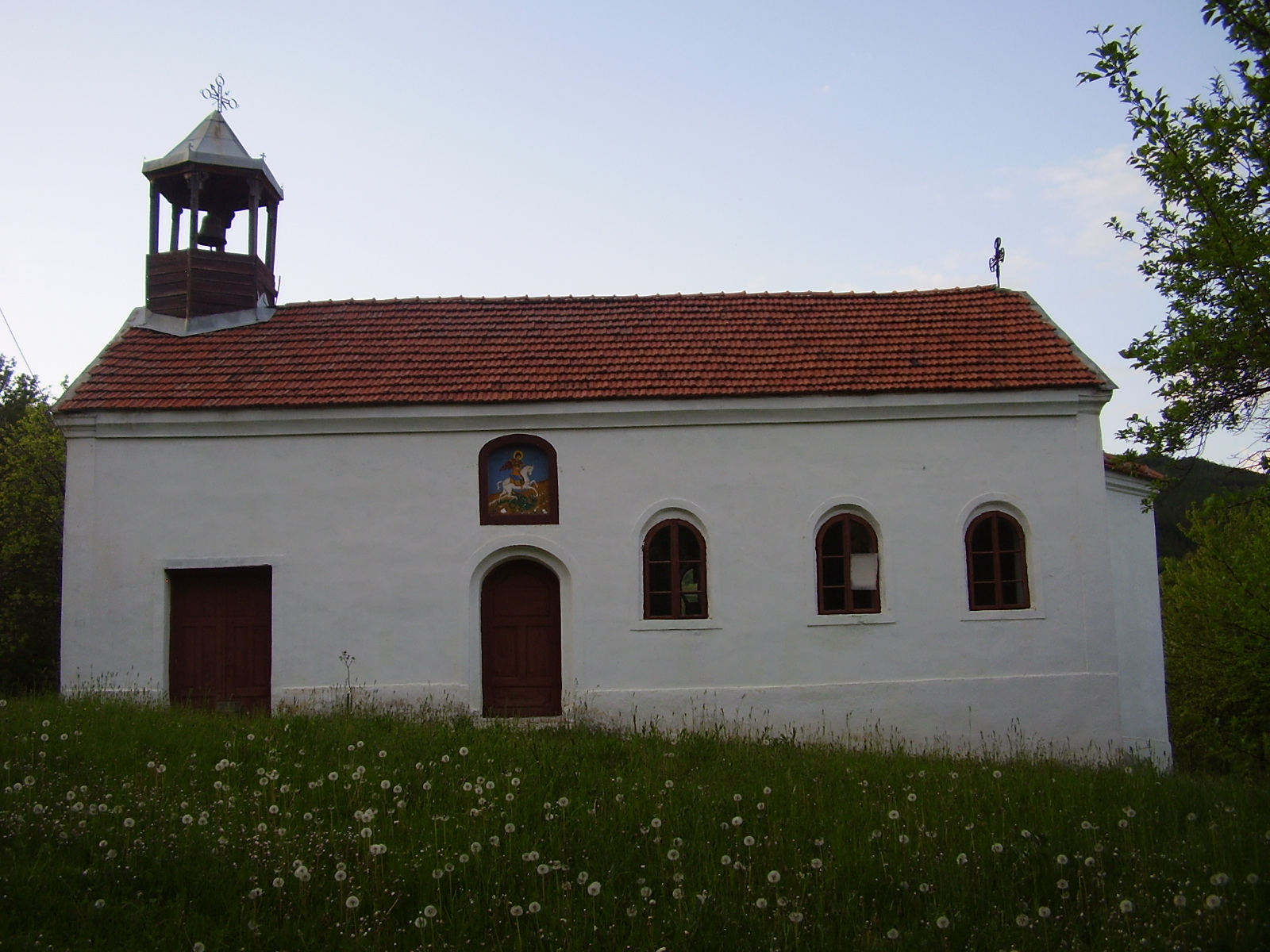 Church in Bunovo, Bulgaria